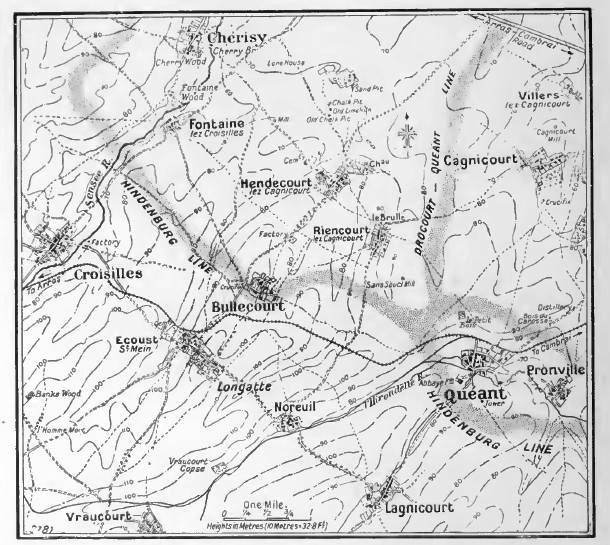 Bullecourt after the construction of the Hindenburg Line, 1917